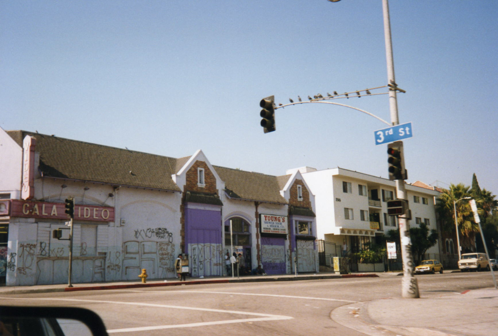 gang graffiti, south central, los angeles, 1993